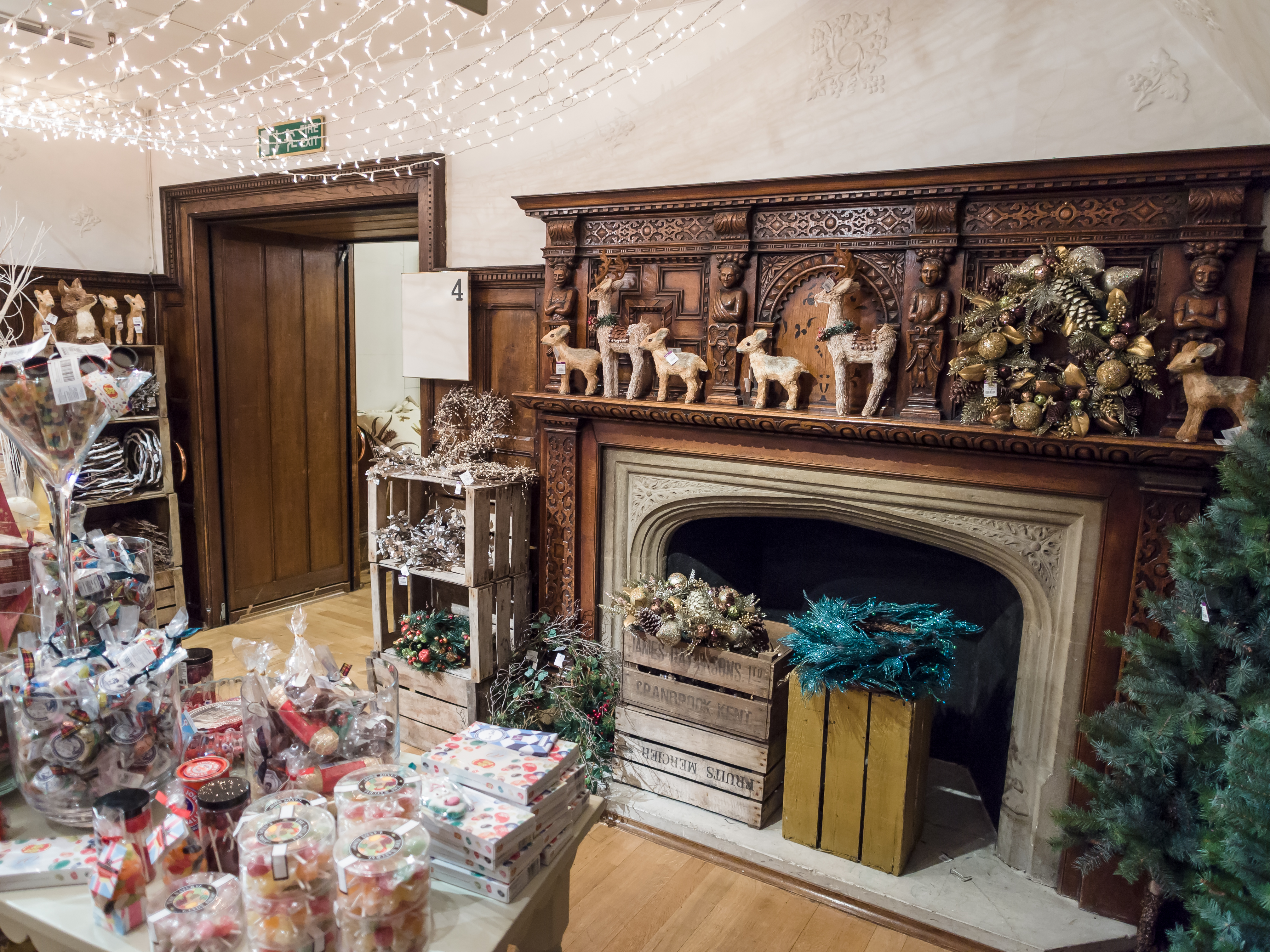 During the Christmas shopping season, 2012